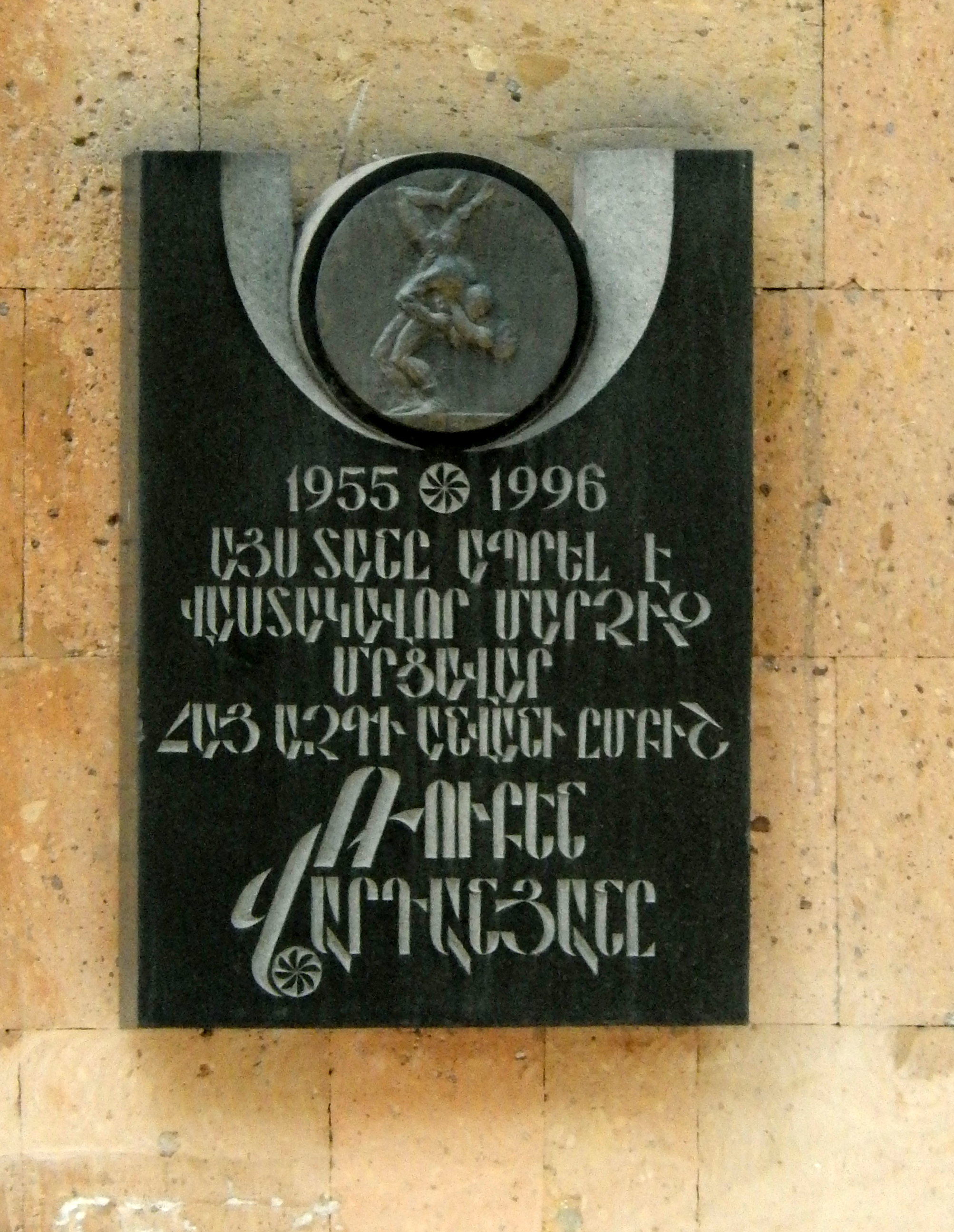 Ruben Vardanyan's plaque in Yerevan